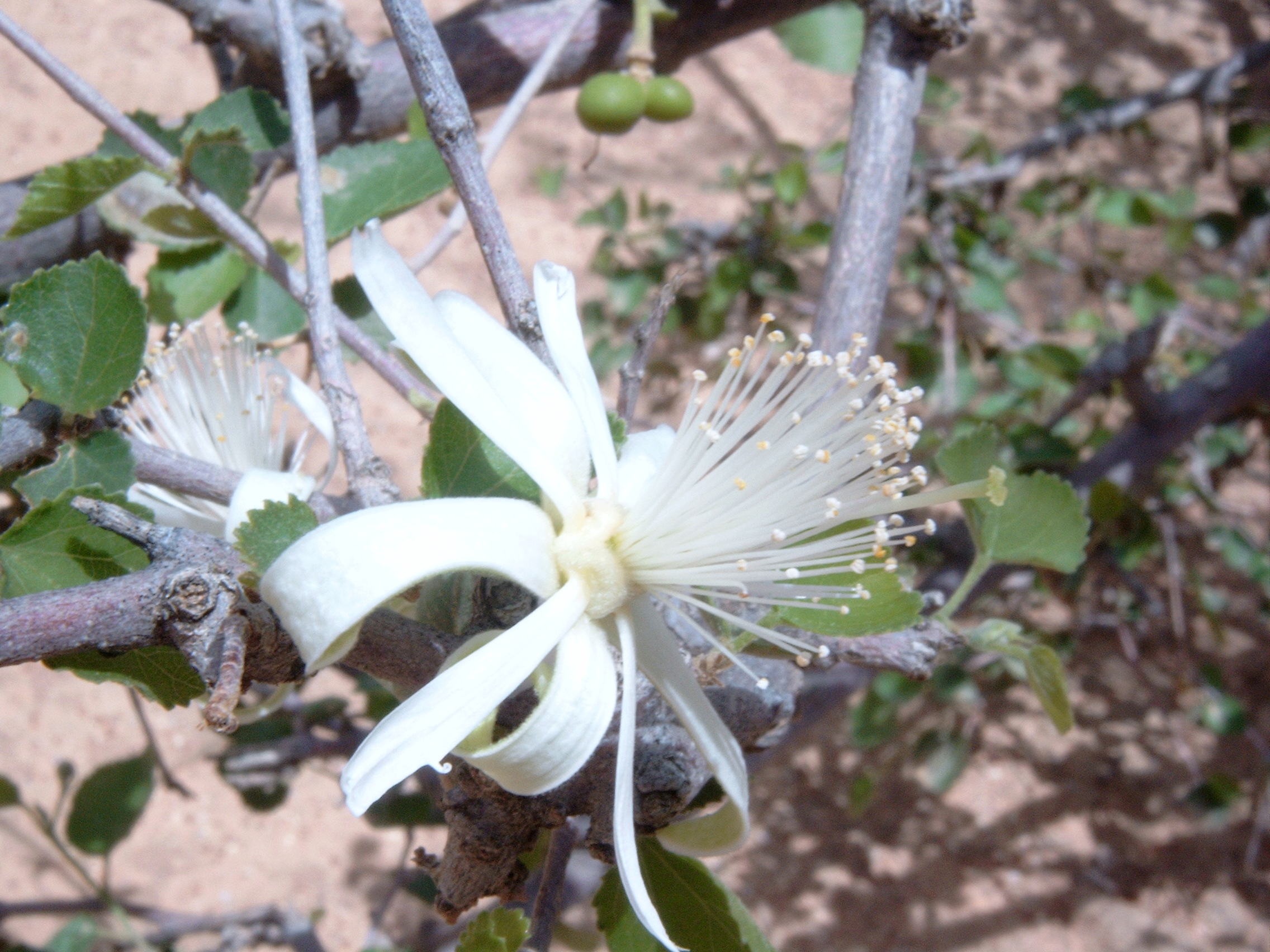 flower of Grewia tenax. Oudalan province, Burkina Faso.